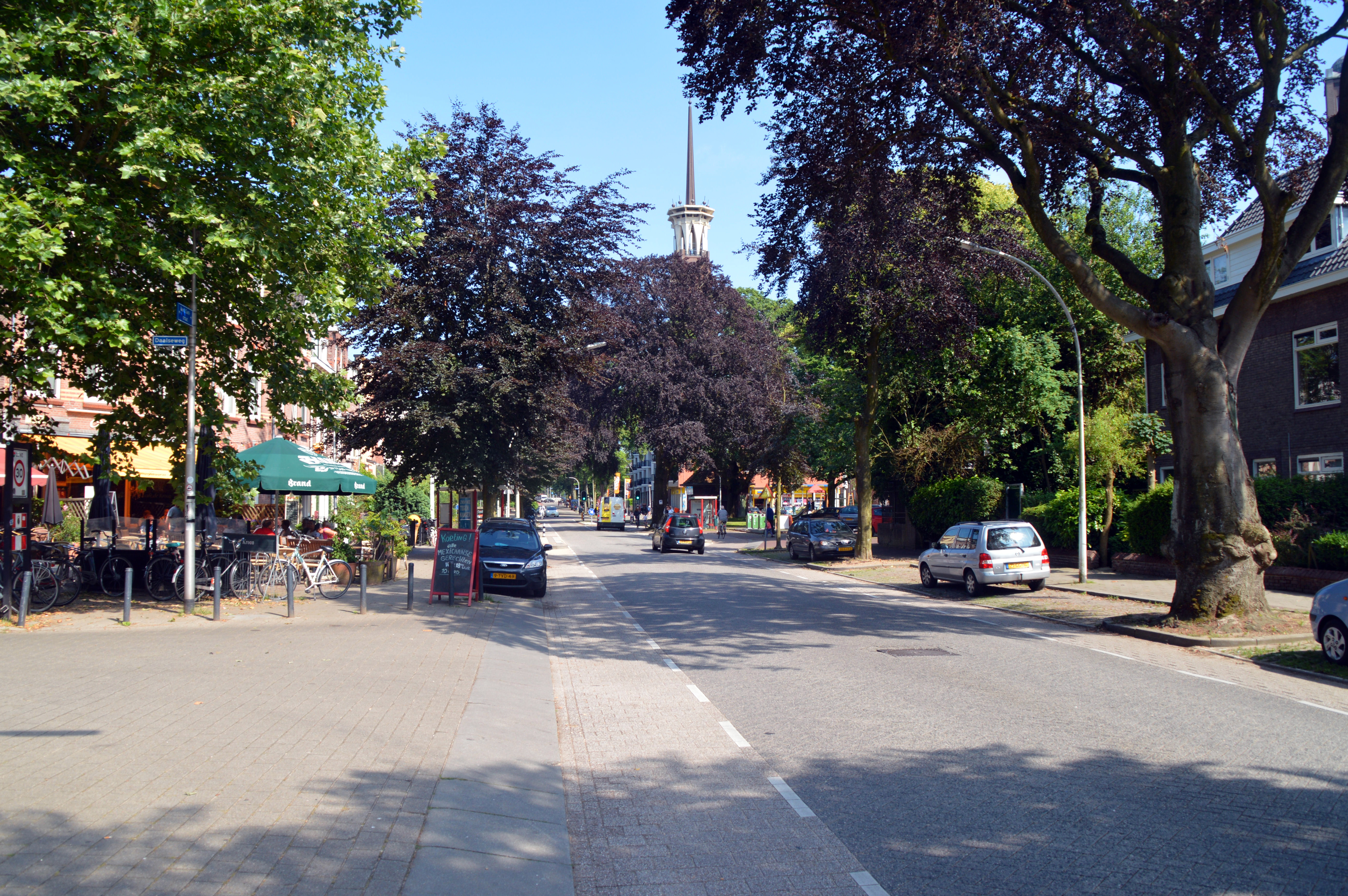 Van 't Santstraat Hengstdal Nijmegen met de Koningstorenin the background